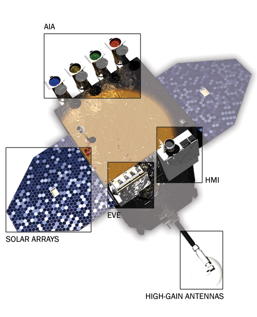 SDO satellite (details)